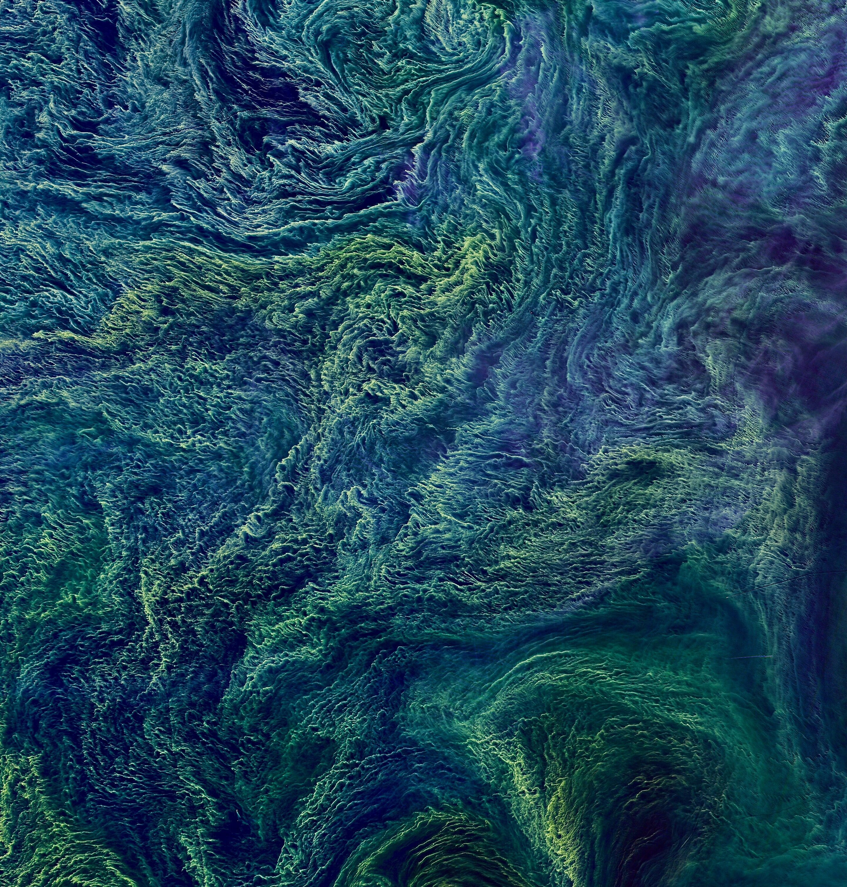 On Aug. 11, 2015, a NASA satellite captured this false-color image of a large bloom of cyanobacteria (Nodularia) swirling in the Baltic Sea. These cyanobacteria fix inorganic atmospheric nitrogen (N2) into a form available to Life, a process fundamental for marine ecosystems. Nitrogen fixation becomes even more important when the state of oxygenation of the ocean declines. See: Naafs BDA, FM Monteiro, A Pearson, MB Higgins, RD Pancost, and A Ridgwell (2019) "Fundamentally different global marine nitrogen cycling in response to severe ocean deoxygenation," PNAS. Credit: NASA Earth Observatory/USGS